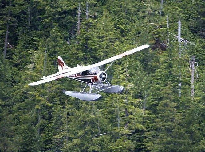 Plane featured in Wings of Change